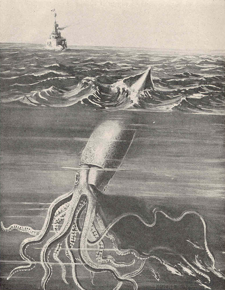 Giant Squid of the Newfoundland Banks. From a painting by Herbert B. Judy Subject: Giant squids, Squids Tag: Fish